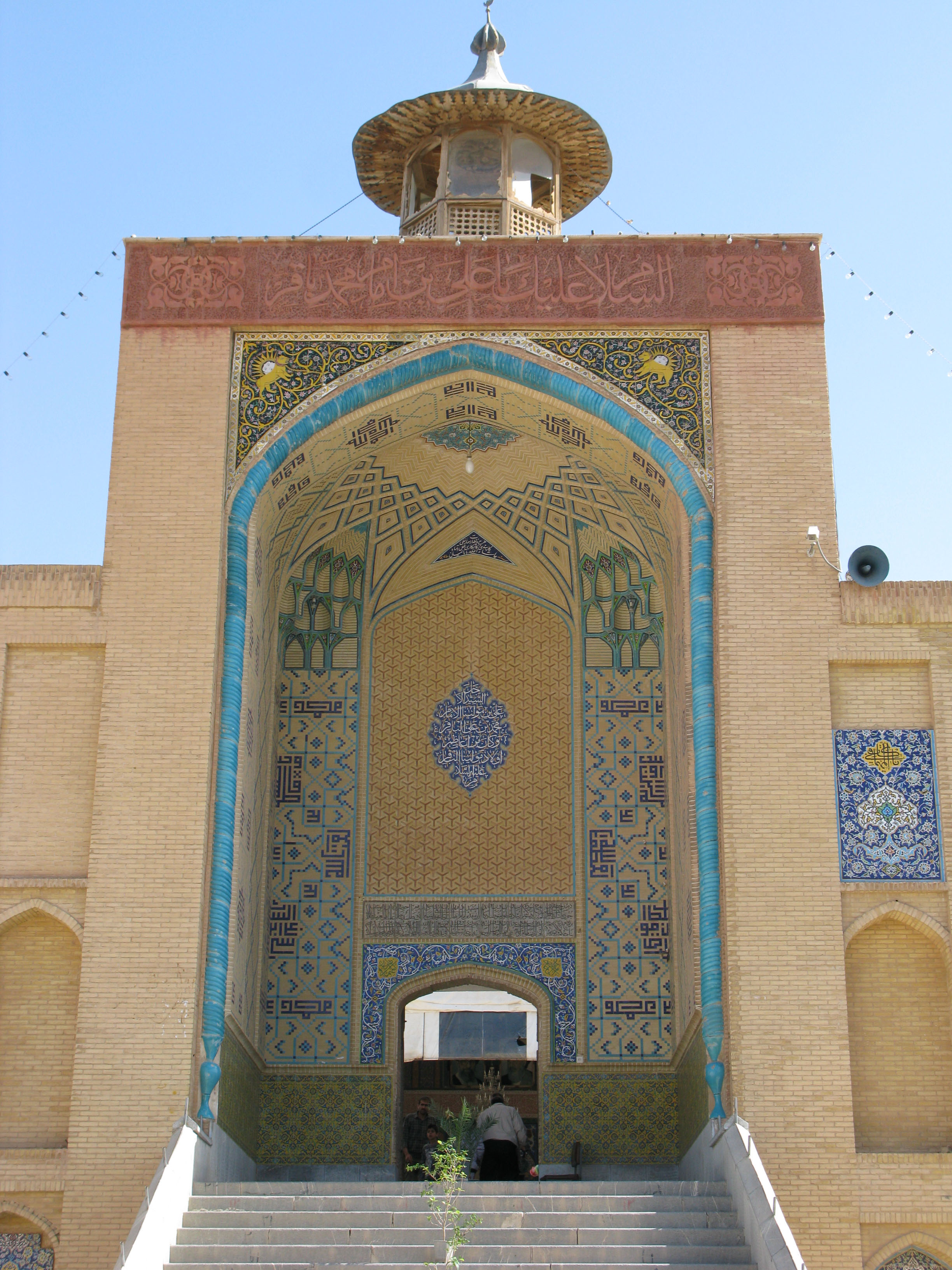 Mausoleum of Imamzadeh_Soltanali (the son of the fifth Imam Muhammad al-Baqir) in Mashhad-e Ardehal village, Isfahan province, Iran.